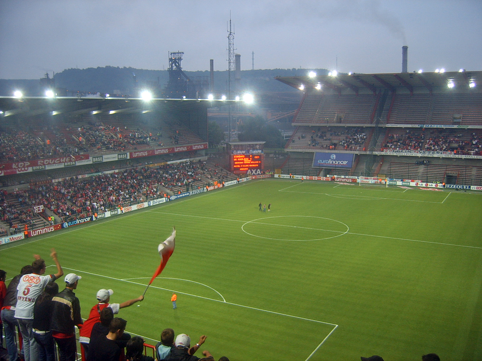 European soccer Cup : Standard de Liège - UN Käerjeng at the Sclessin Stadium in Liège. In the background, the ArcelorMittal blast furnace in Ougrée, and the Sart Tilman Hill